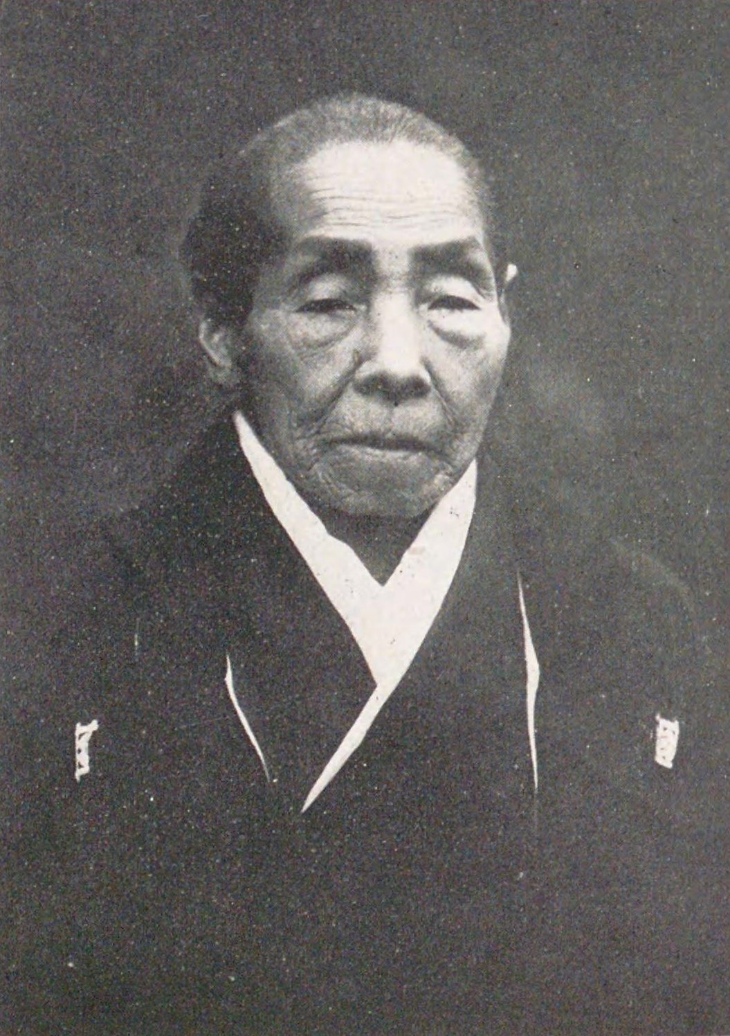 Miwada Masako, a Japanese female educator.